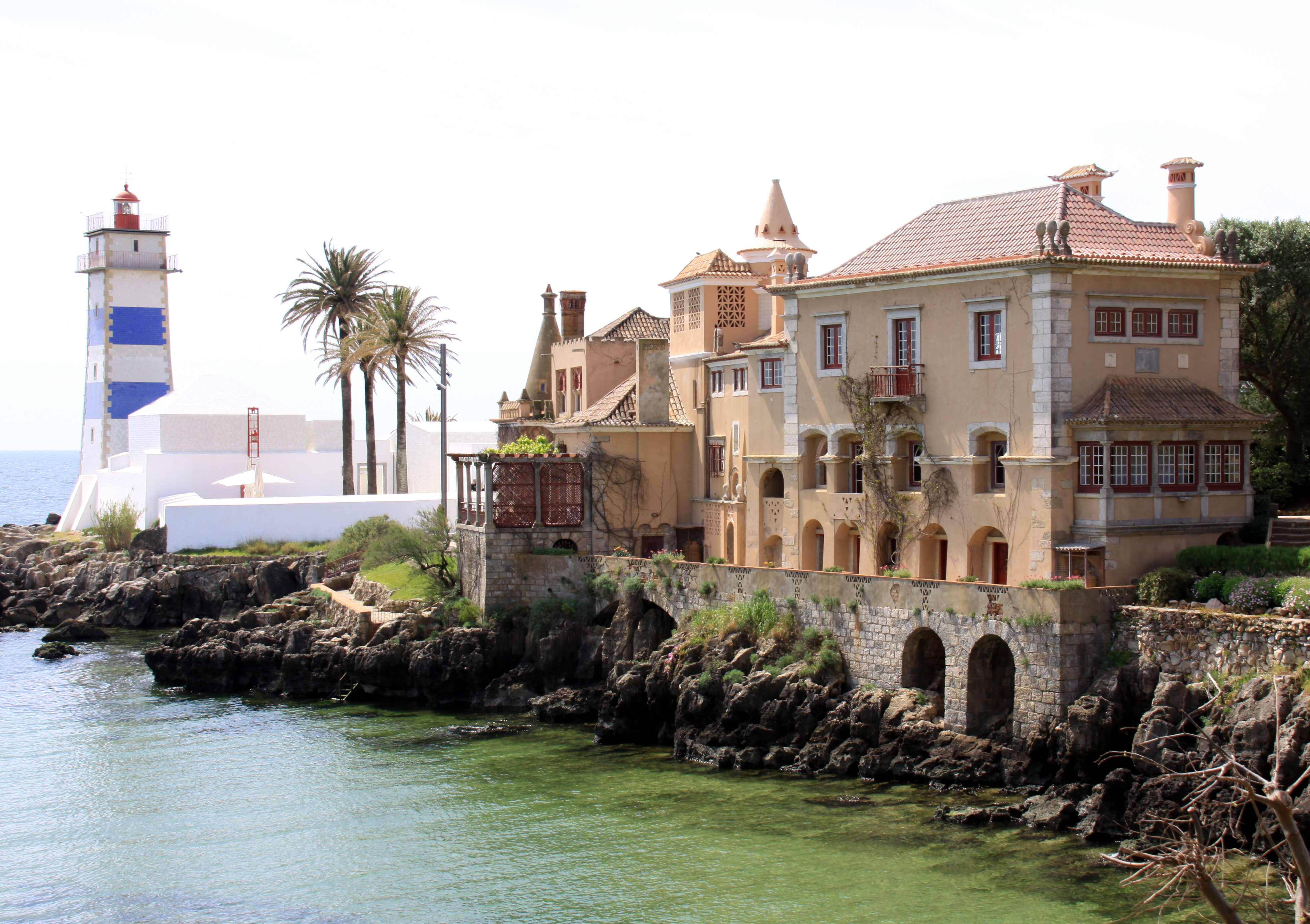 Farol Santa Marta (left) and Casa de Santa Maria (right). At Portugal, Cascais.